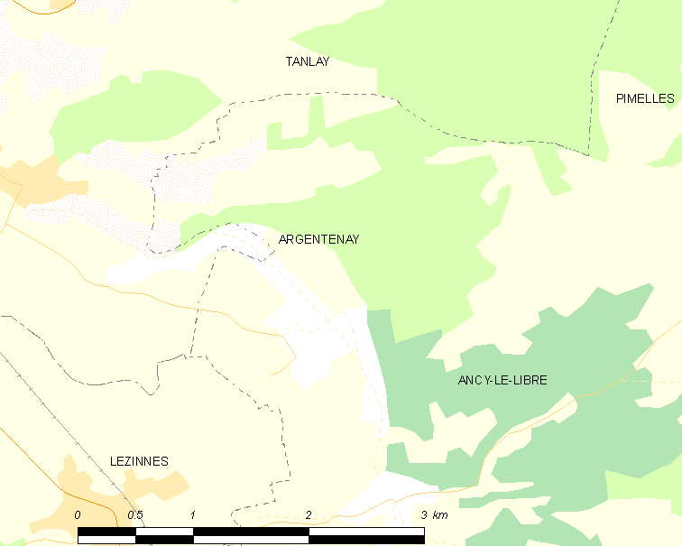 Map of French municipality Argentenay